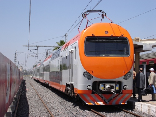 Z2M Railway Vehicle